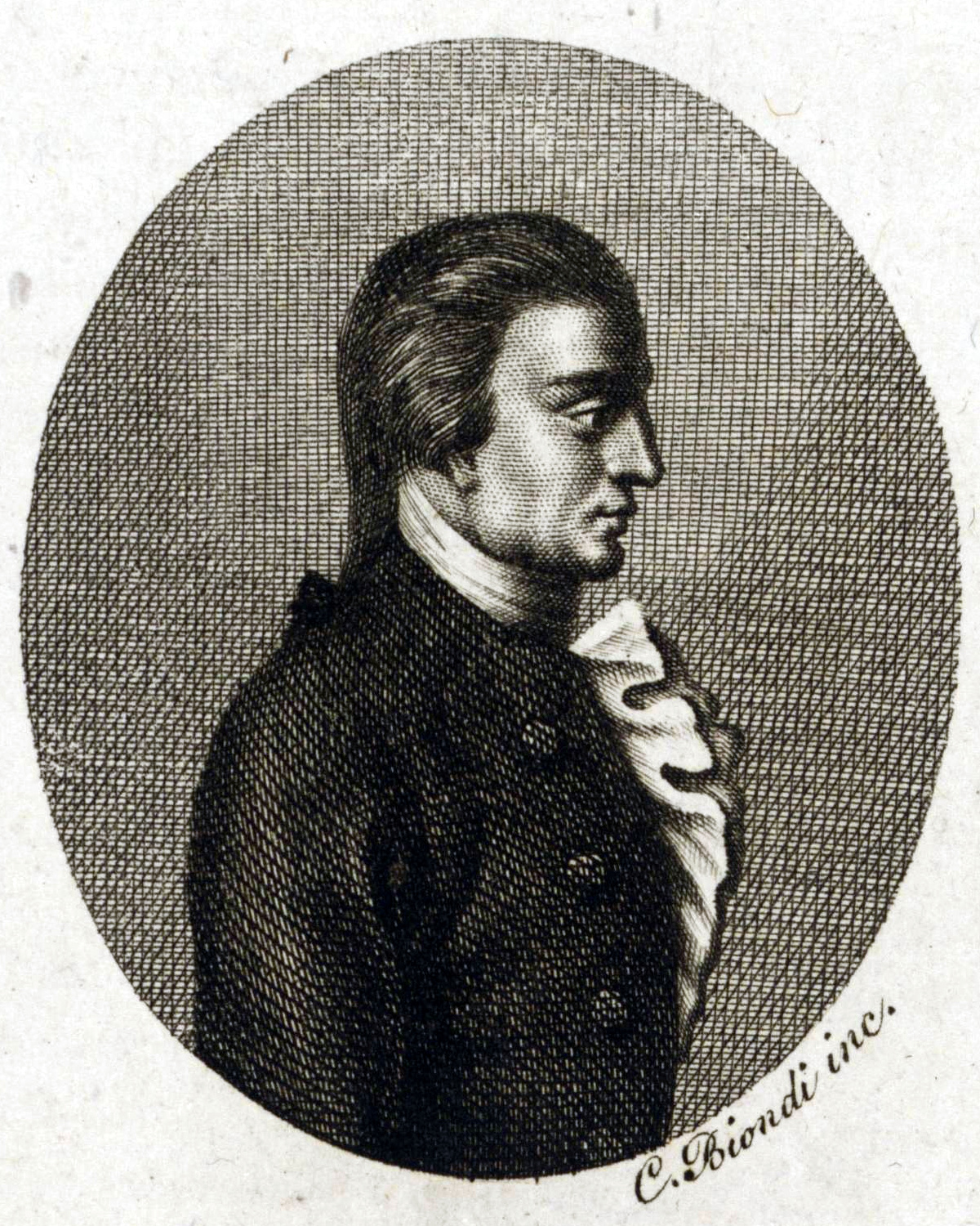 Portrait of the Italian Pasquale Anfossi (1727-1797)